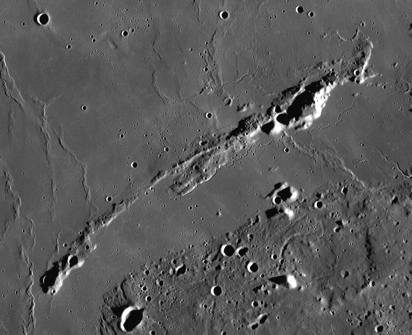 Montes Agricola on the Moon, in Oceanus Procellarum. Mosaic of photos by Lunar Reconnaissance Orbiter, made with Wide Angle Camera. Size of the image is 160×130 km, north is up.